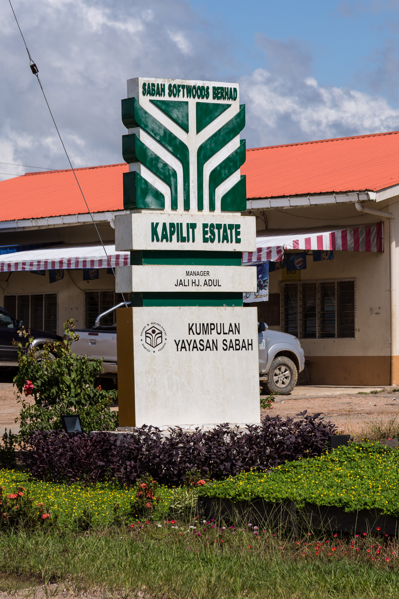 Tawau District, Sabah: Kapilit Estate (Sabah Softwoods Berhad), member of Kumpulan Yayasan Sabah. Located at the Tawau-Kalabakan-Road